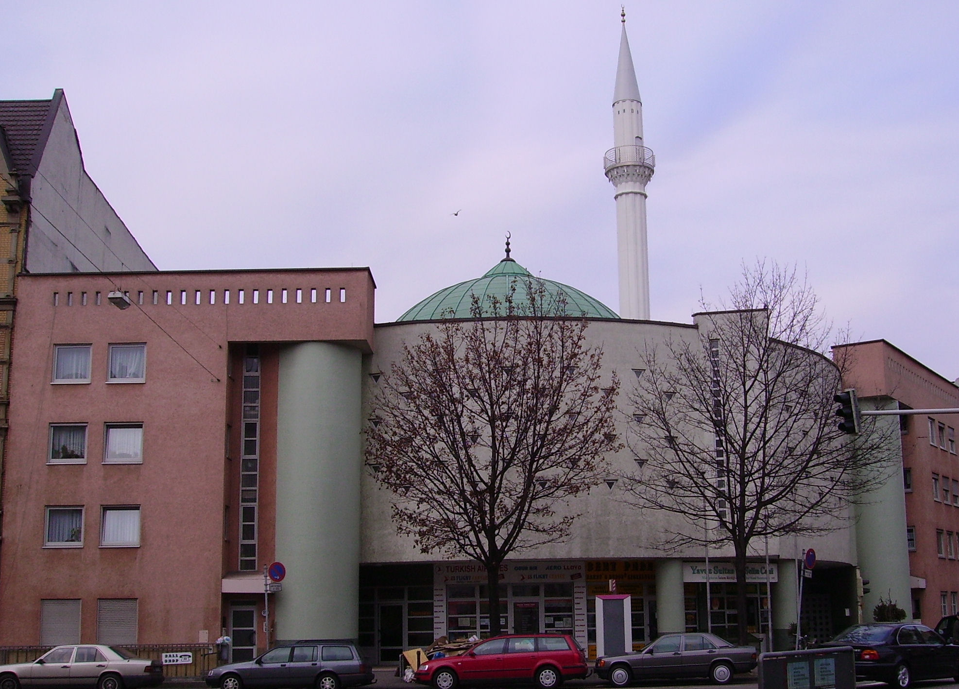 mosque of Mannheim in Germany